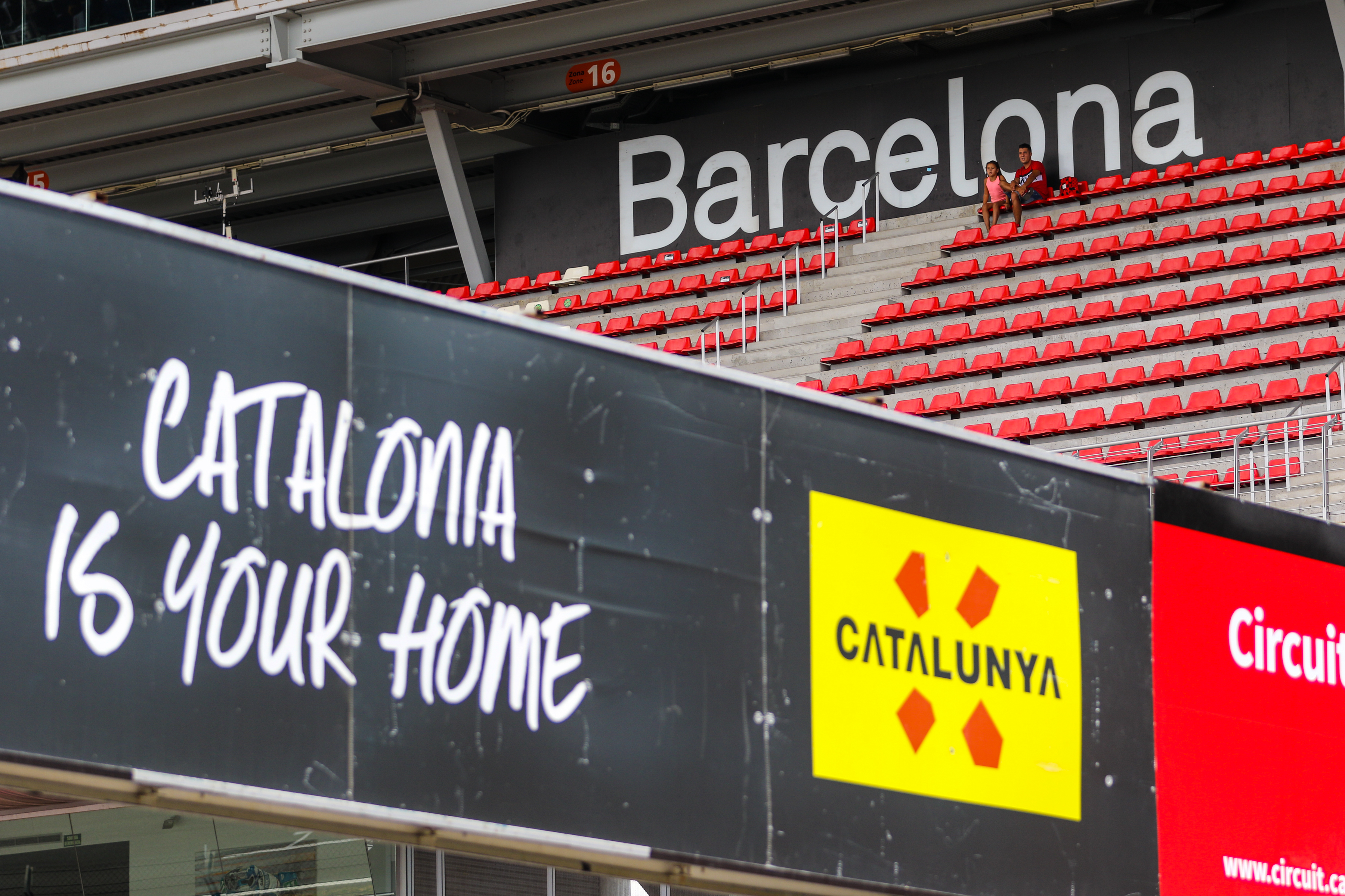 2019 4 Hours of Barcelone stands